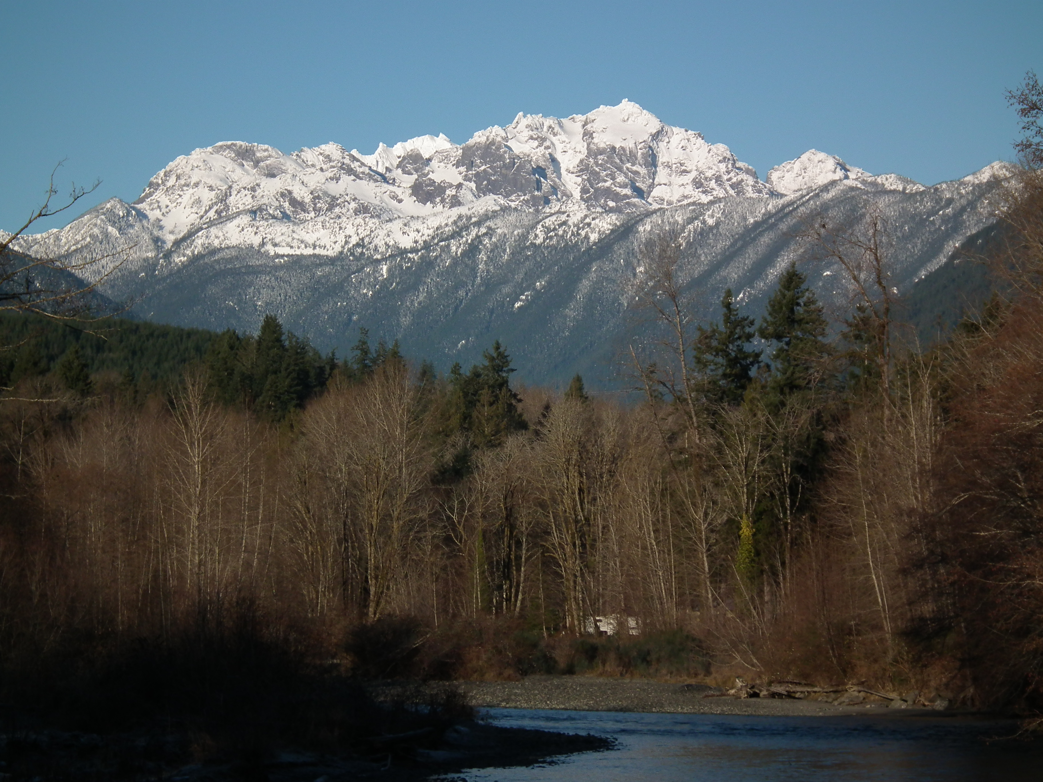 Mt. Constance and the lower Dosewallips River as seen from US. Highway 101 in Dosewallips State Park near Brinnon, WA, USA.